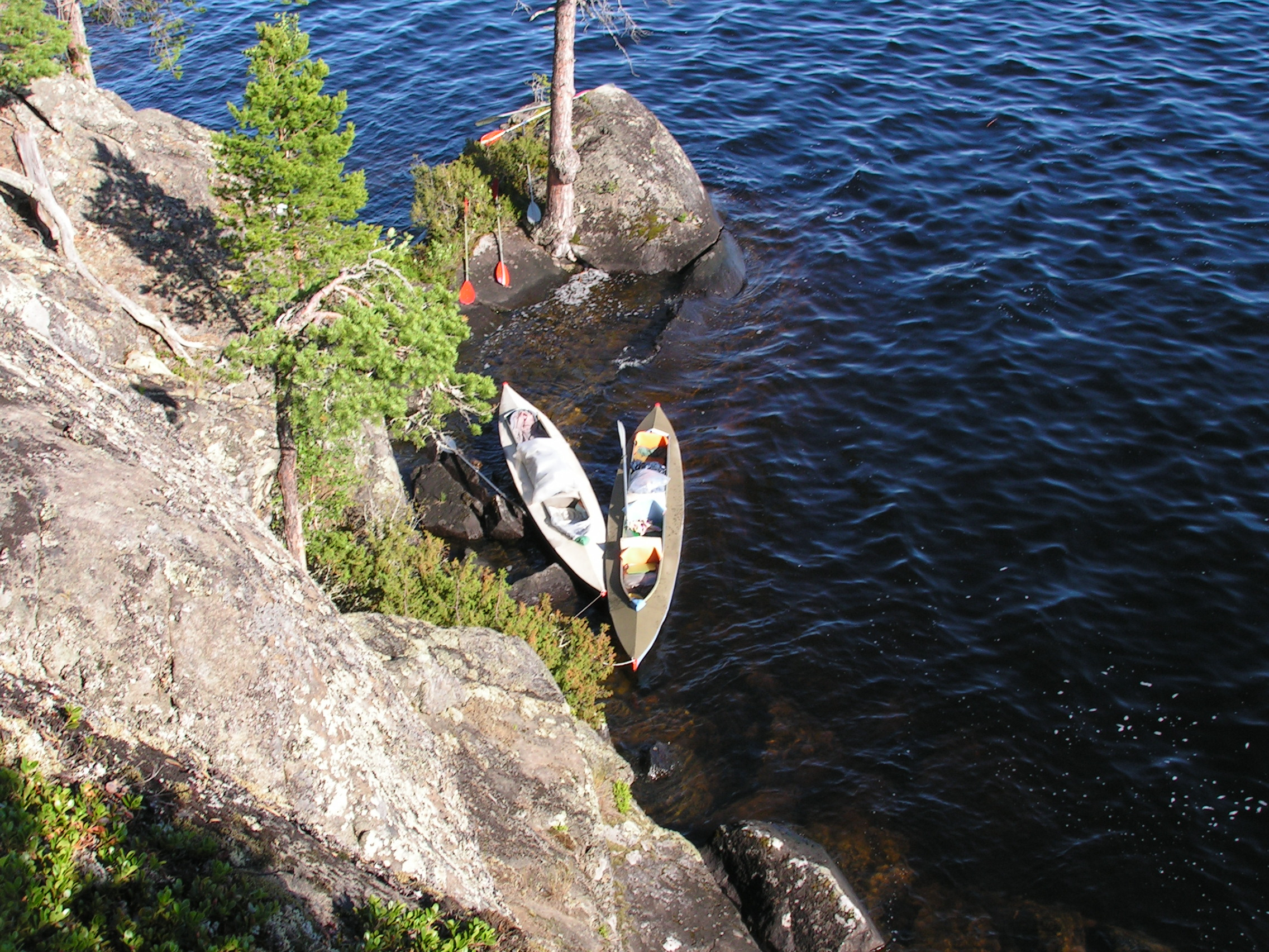 Keret lake